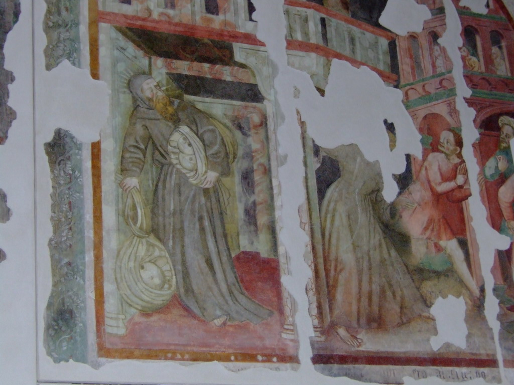 Church of Saint Francis - Udine